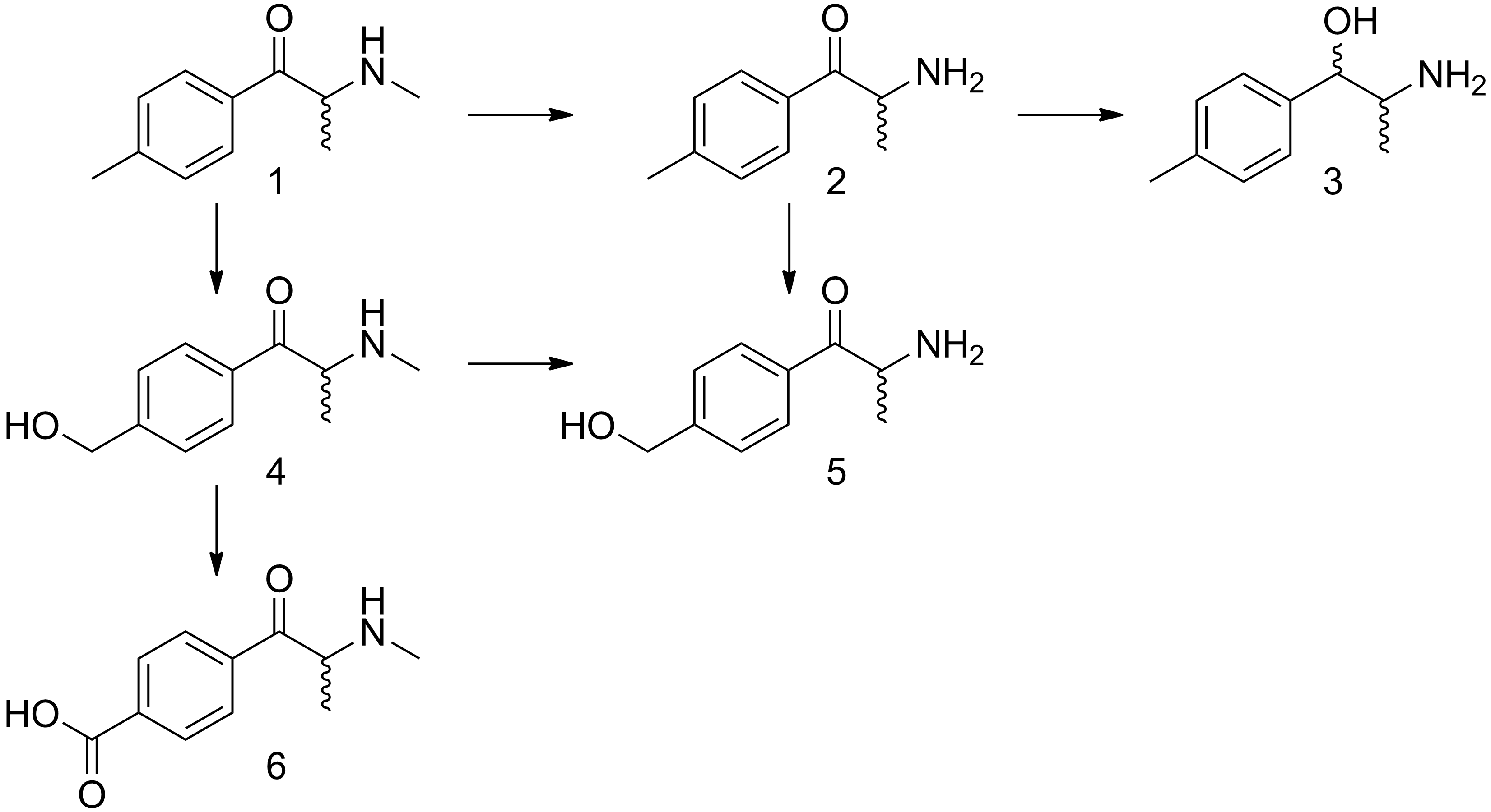 Metabolic fate of mephedrone based on Meyer MR, Wilhelm J, Peters FT, Maurer HH, "Beta-keto amphetamines: studies on the metabolism of the designer drug mephedrone and toxicological detection of mephedrone, butylone, and methylone in urine using gas chromatography-mass spectrometry" Anal Bioanal Chem. 2010 397(3):1225-33